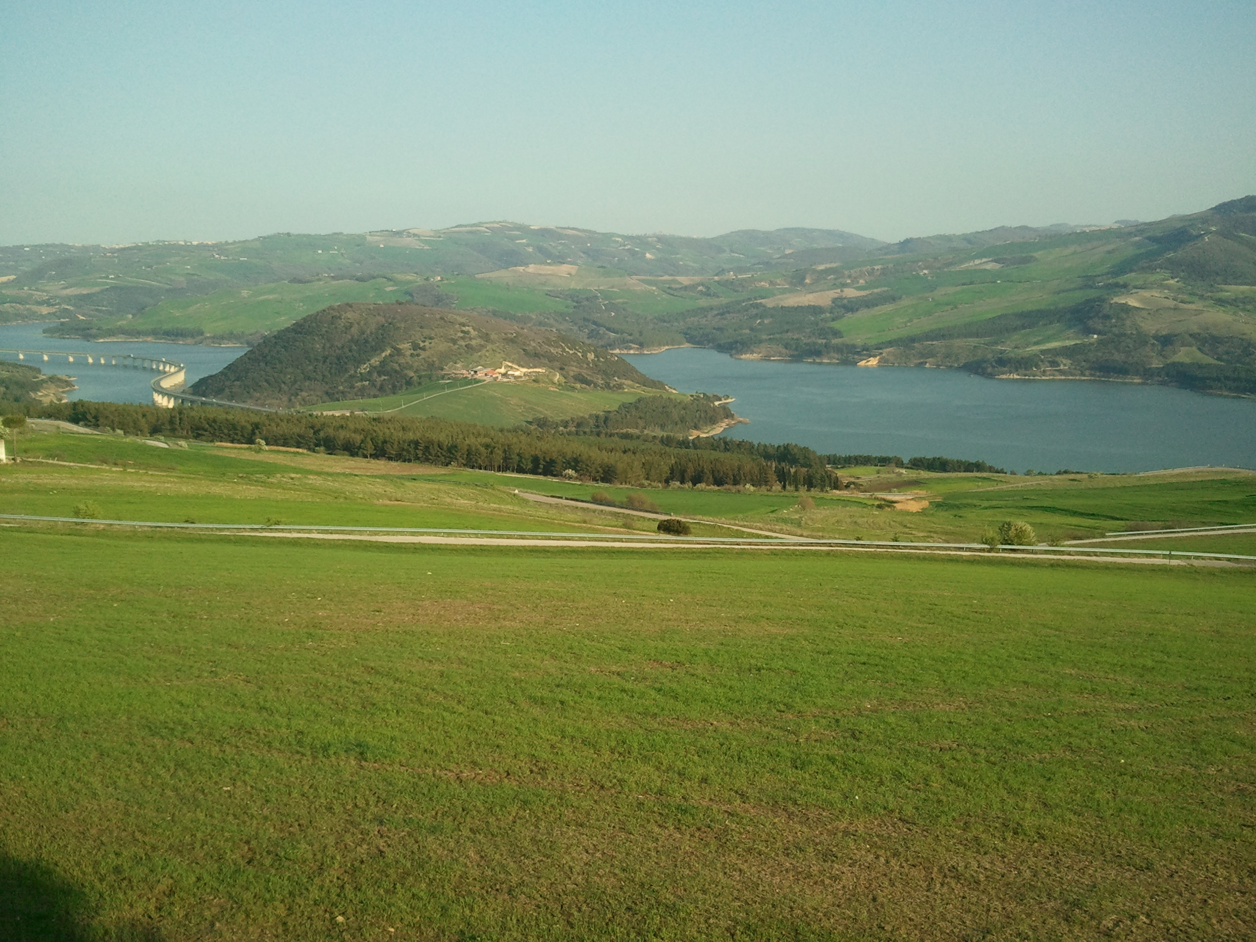 Guardialfiera Lake, Molise region, looking eastward